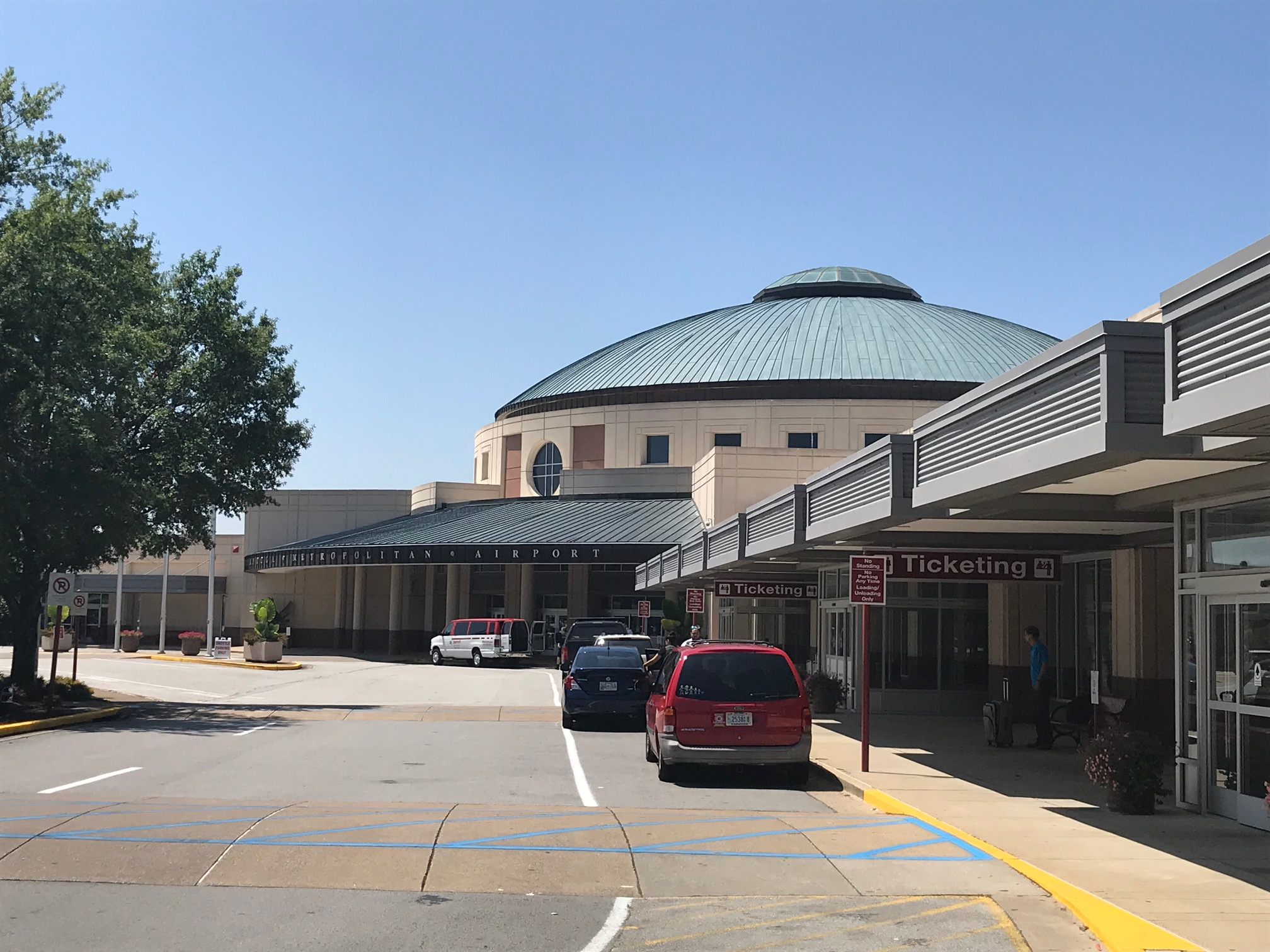 Chattanooga airport from the car park showing the front entrance and architecture of the building